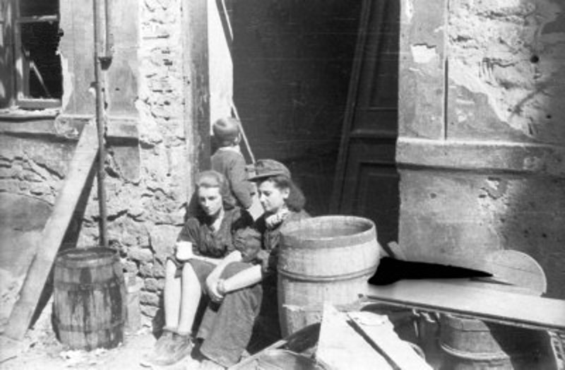 WarsawUprising: Nurses from "Anna" company of batallion "Gustaw".